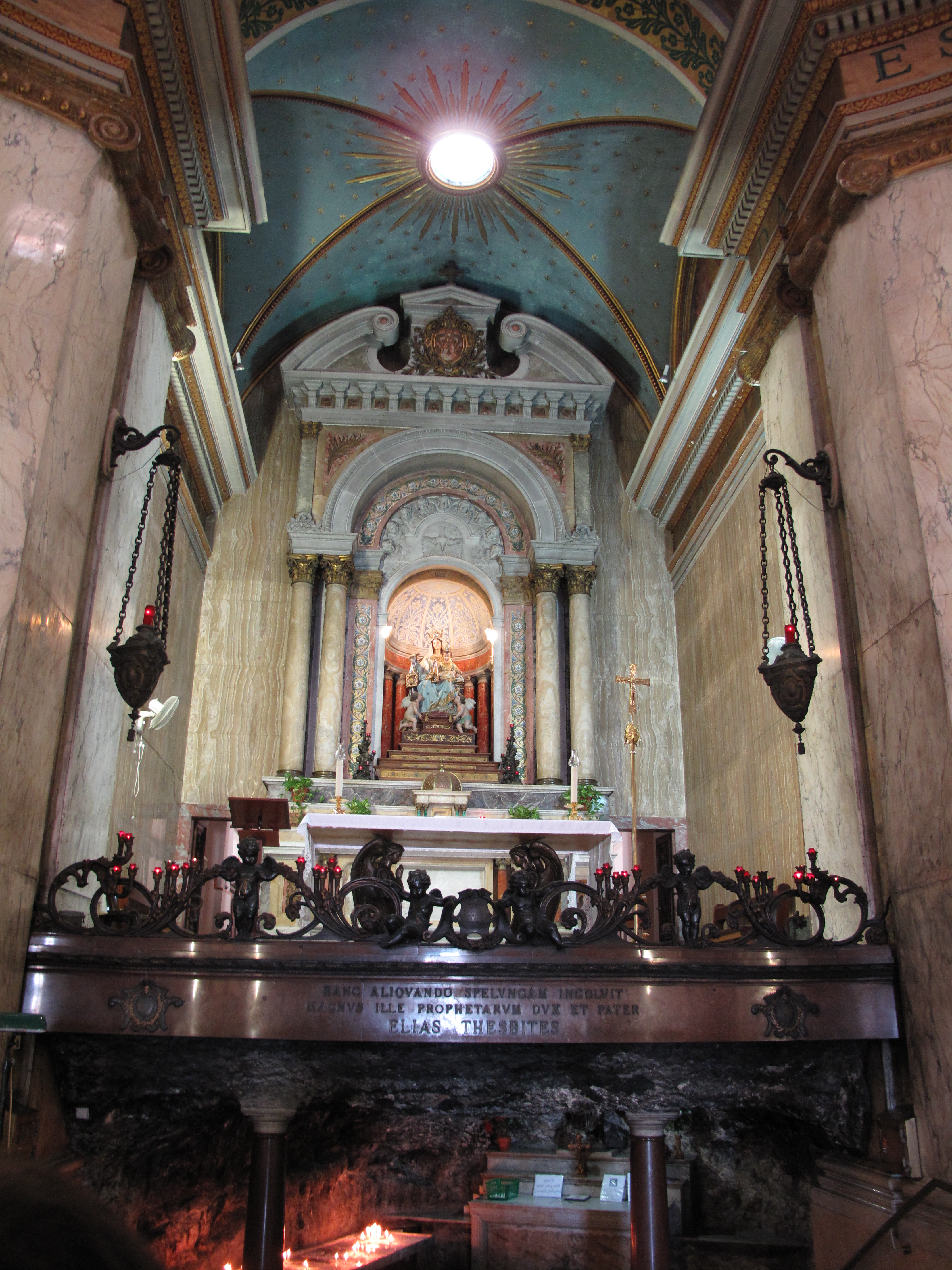 Stella Maris Monastery, Haifa, Israel.